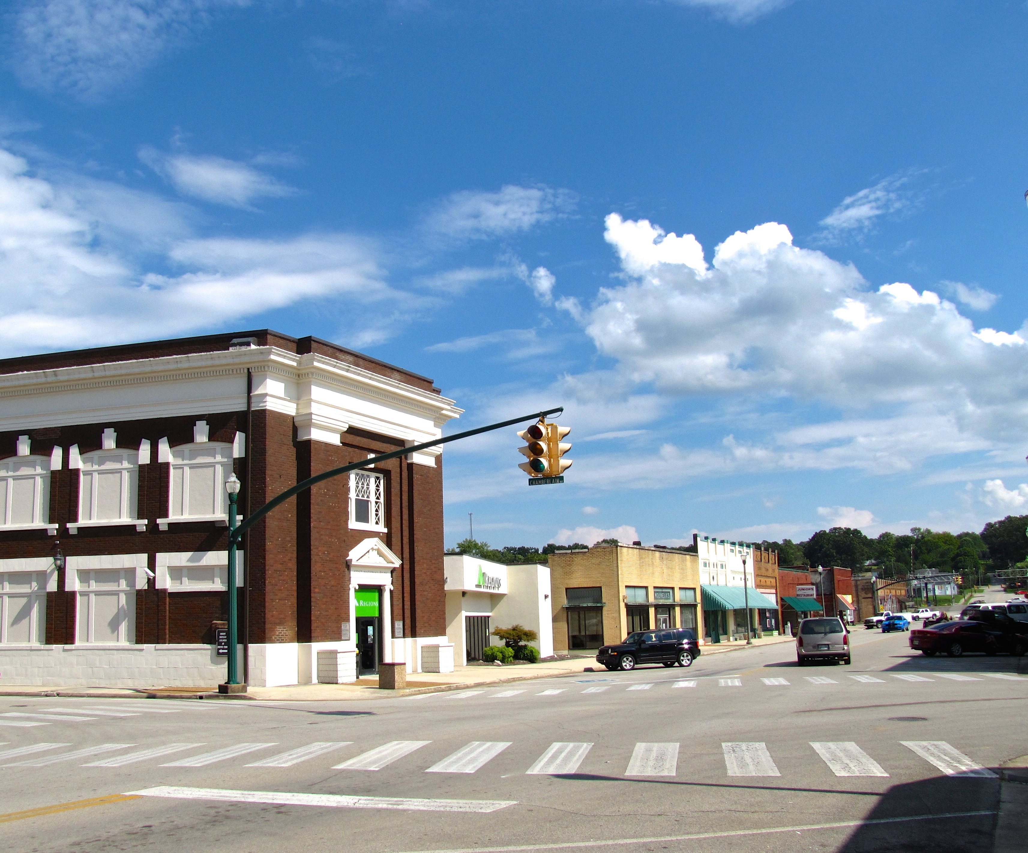 View along Rockwood Street in Rockwood, Tennessee, United States.